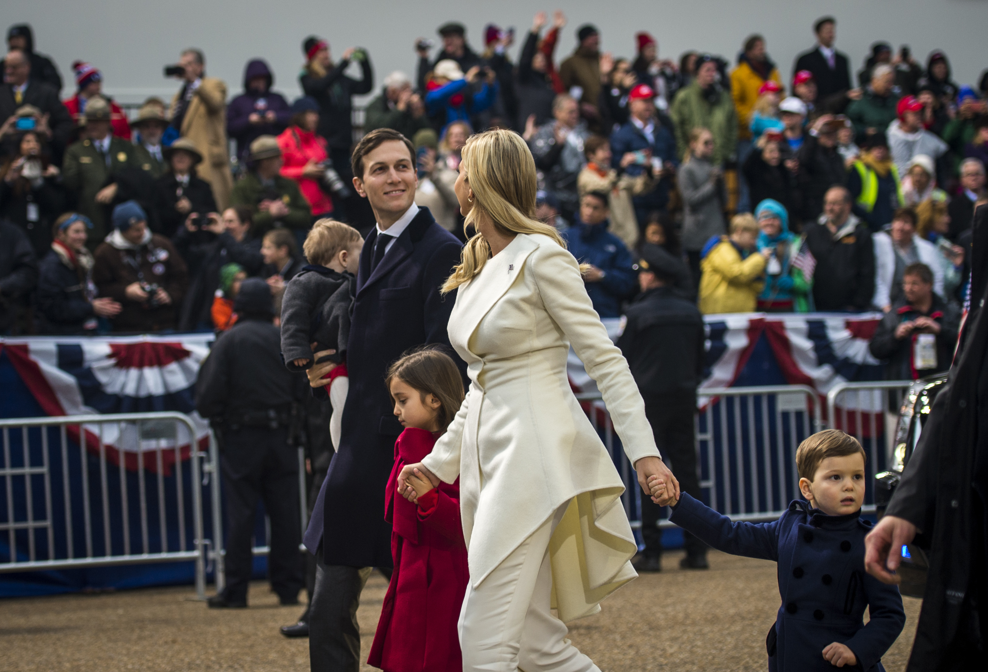 Presidential daughter, Ivanka Trump, walks in the inaugural parade with her family for the the 58th Presidential Inauguration in Washington, D.C., Jan. 20, 2017. More than 5,000 military members from across all branches of the armed forces of the United States, including reserve and National Guard components, provided ceremonial support and Defense Support of Civil Authorities during the inaugural period. (DoD photo by U.S. Air Force Staff Sgt. Marianique Santos)